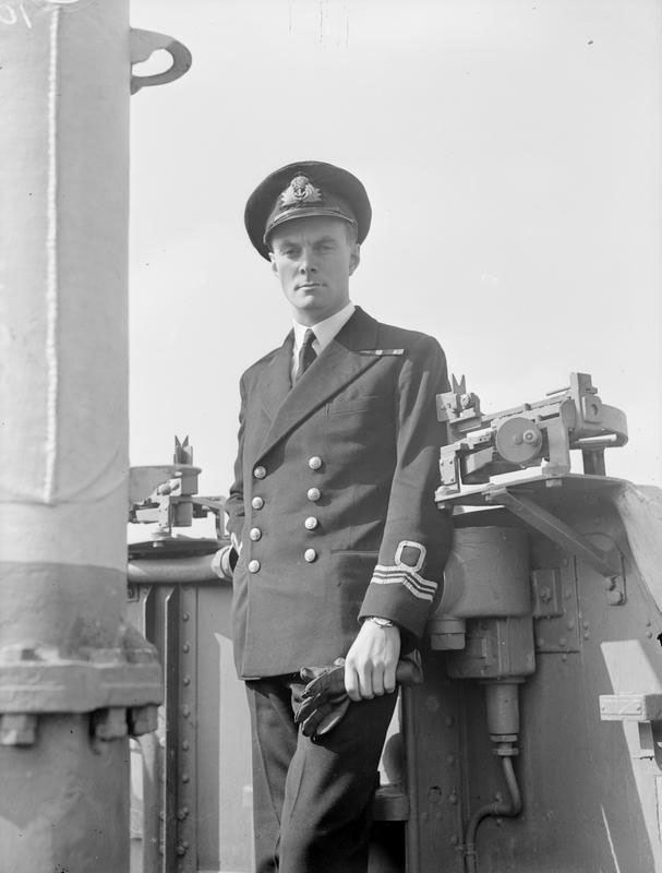 Lt Cdr Edward Preston Young RNVR, commanding officer of HMS/M Storm. The photograph was taken on the return to the United Kingdom of HMS/M Storm from the Pacific theatre of operations